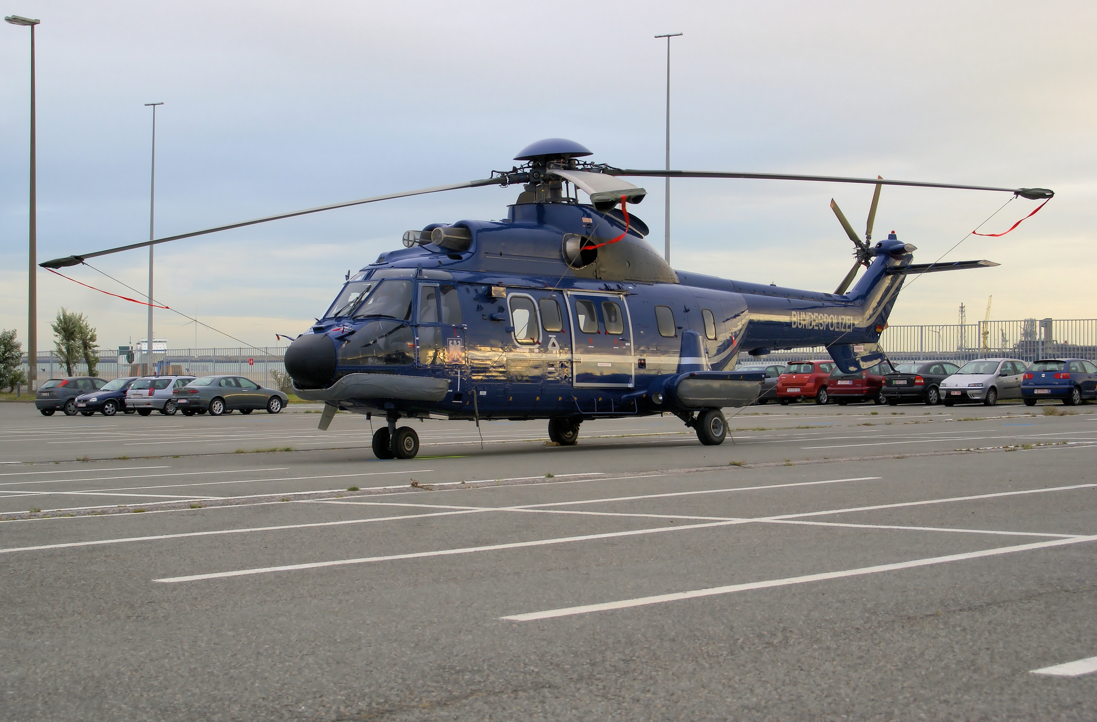 Bundespolizei Aérospatiale AS 332 Super Puma helicopter on a practice mission.